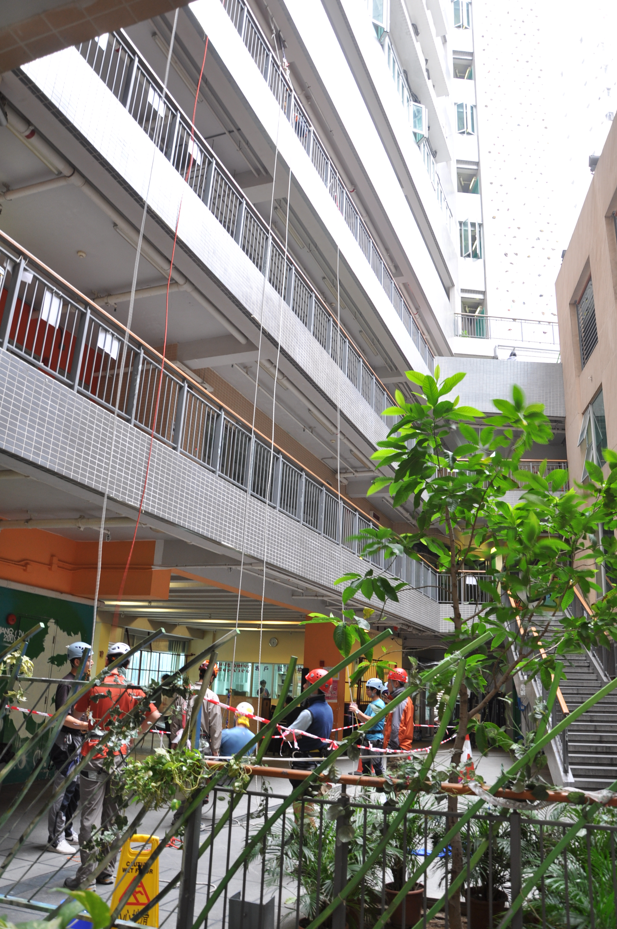 Picture of the interior of youth outreach